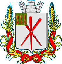 Coat of Arms of Nizhny Lomov, 1861